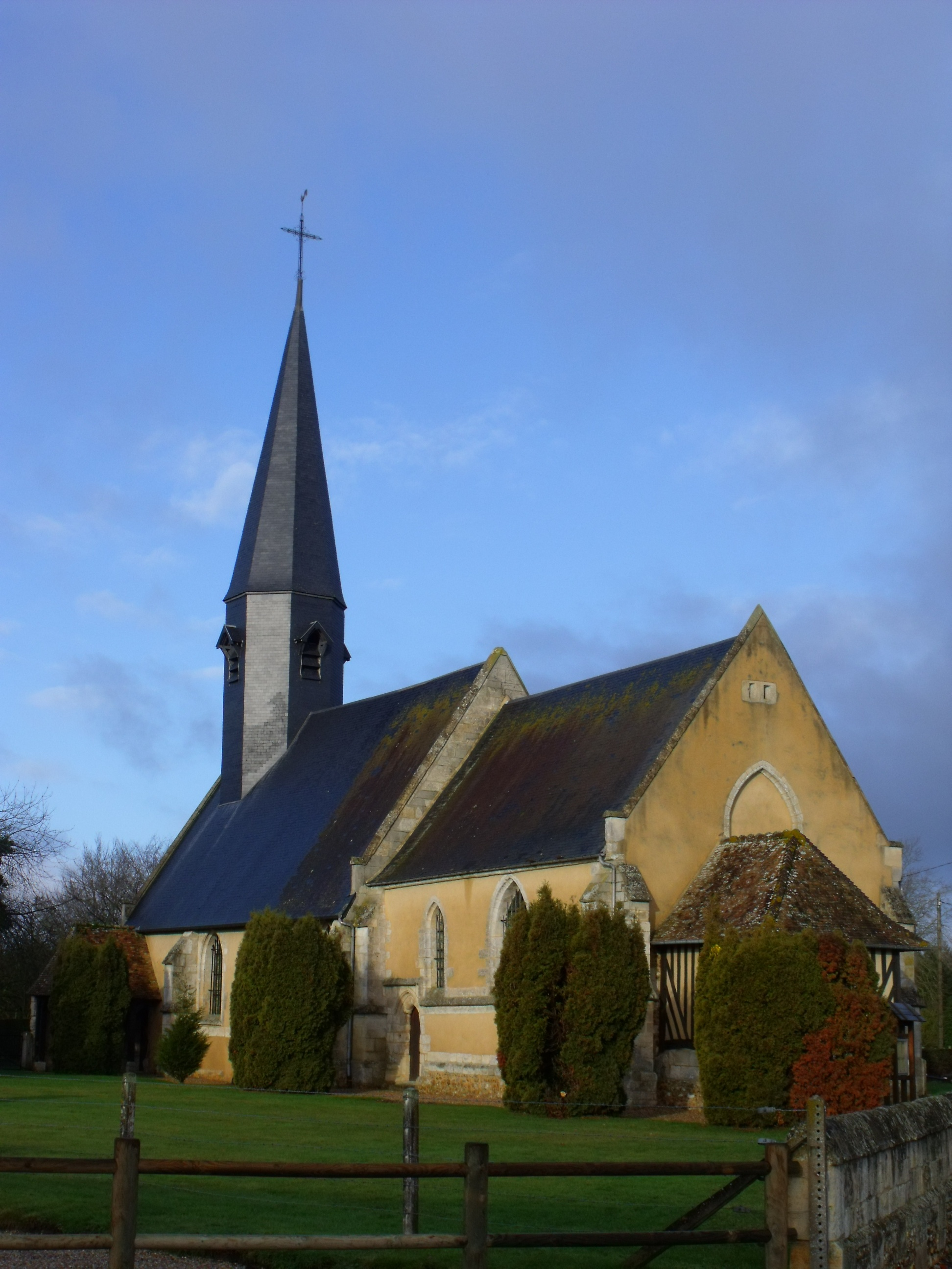 Saint Peter Church of Épreville-près-le-Neubourg